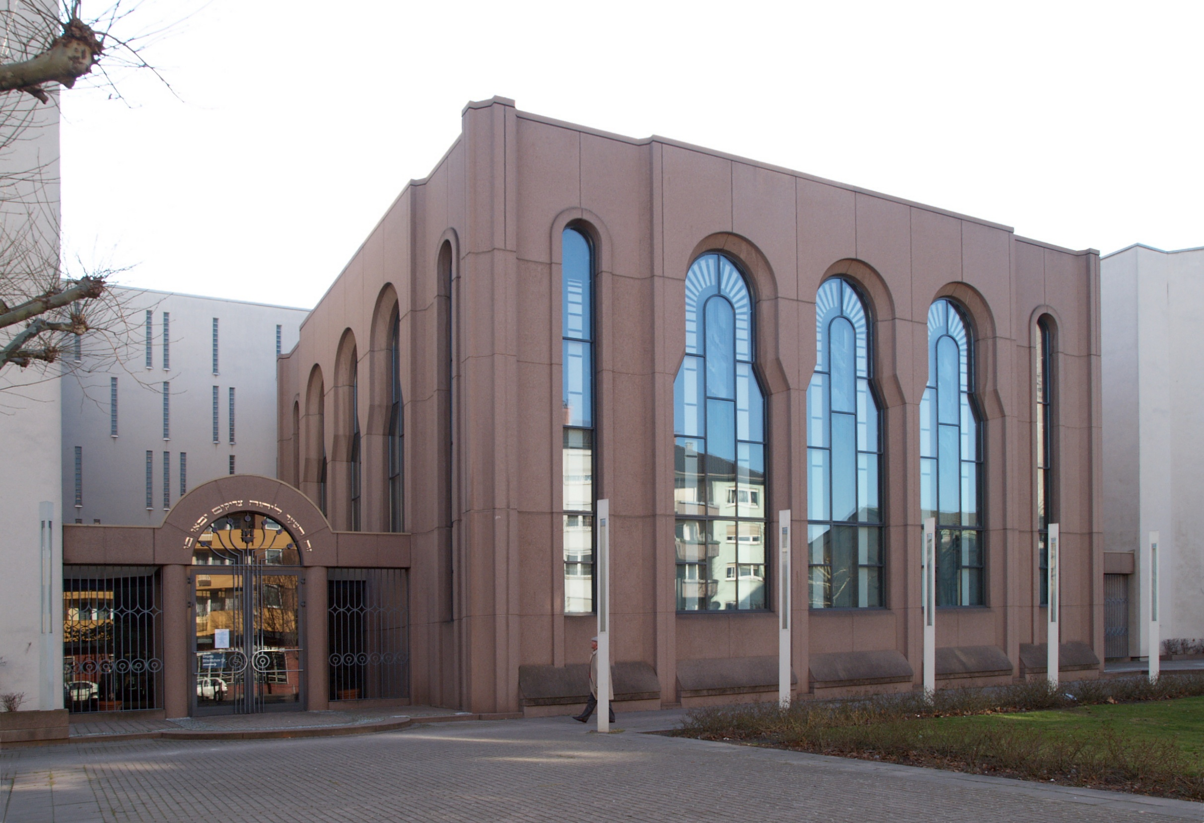 Outside view of the entry side of the synagogue in Mannheim (Germany)